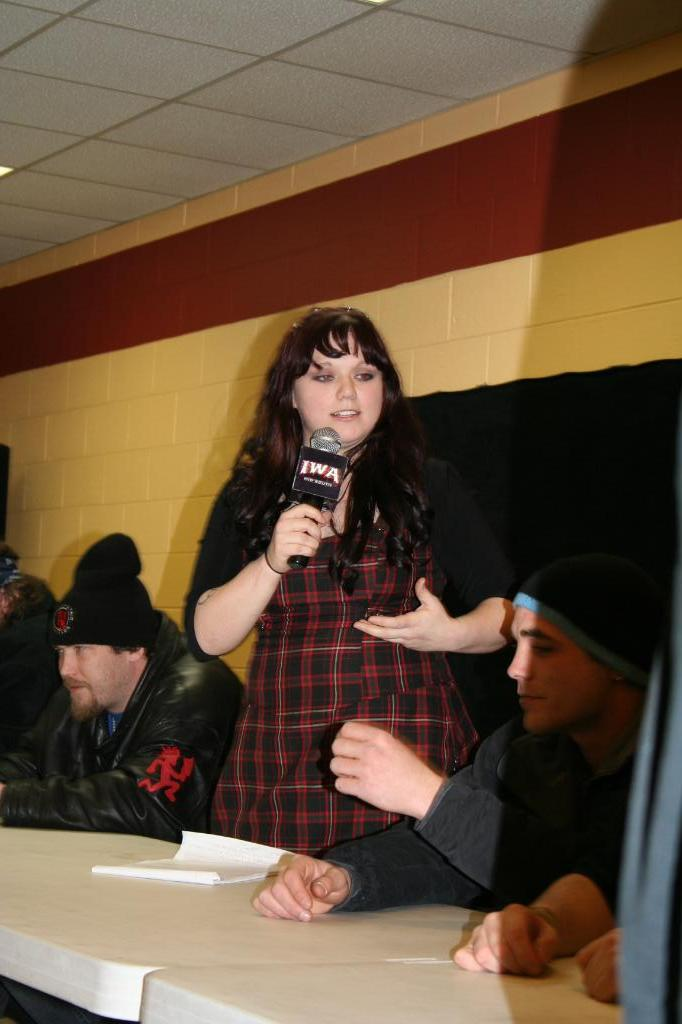 Mickie Knuckles speaking at Ian Rotten's Retirement Roast